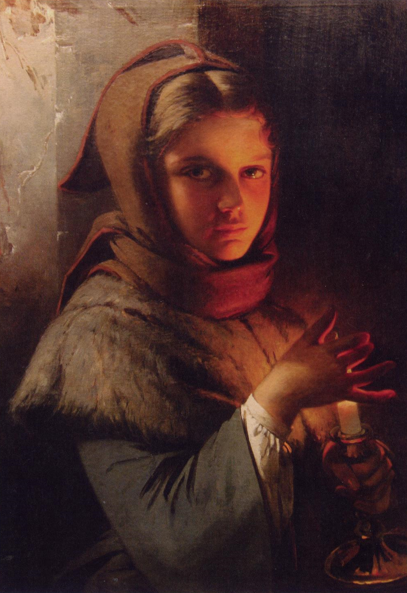 Julie Hagen-Schwarz. Portrait girls